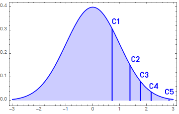 Brazil and Japan result probabilities in the normal distribution for calculation of the FIVB World Rankings.